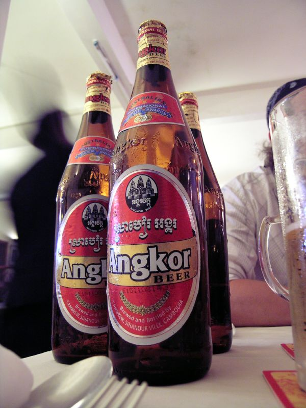 In Cambodia Angkor beer is everywhere. Use of this photo must credit Ryan McFarland with a link to